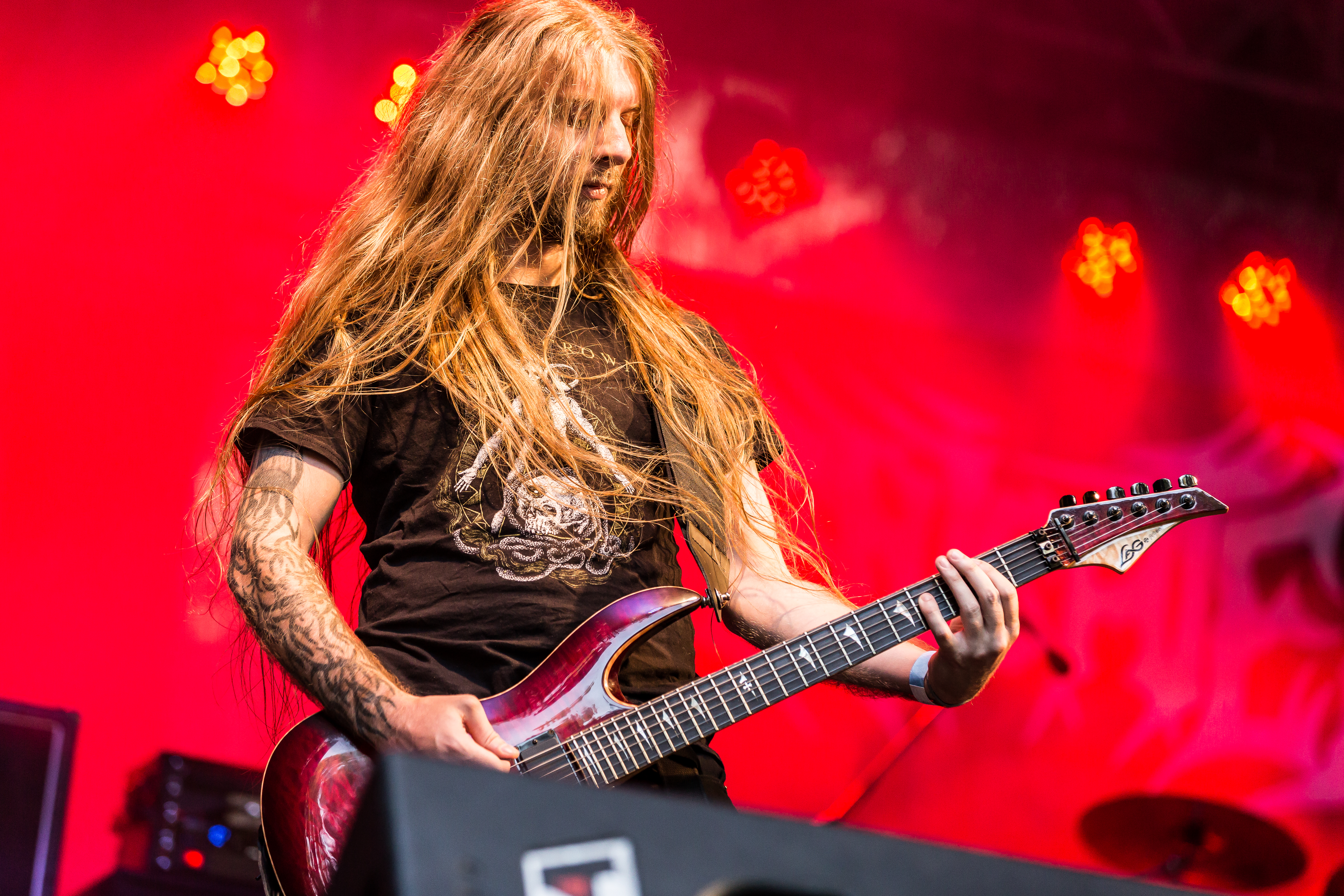 The French brutal death metal band Benighted at the Rock unter den Eichen Open Air 2017 in Bertingen/Germany.